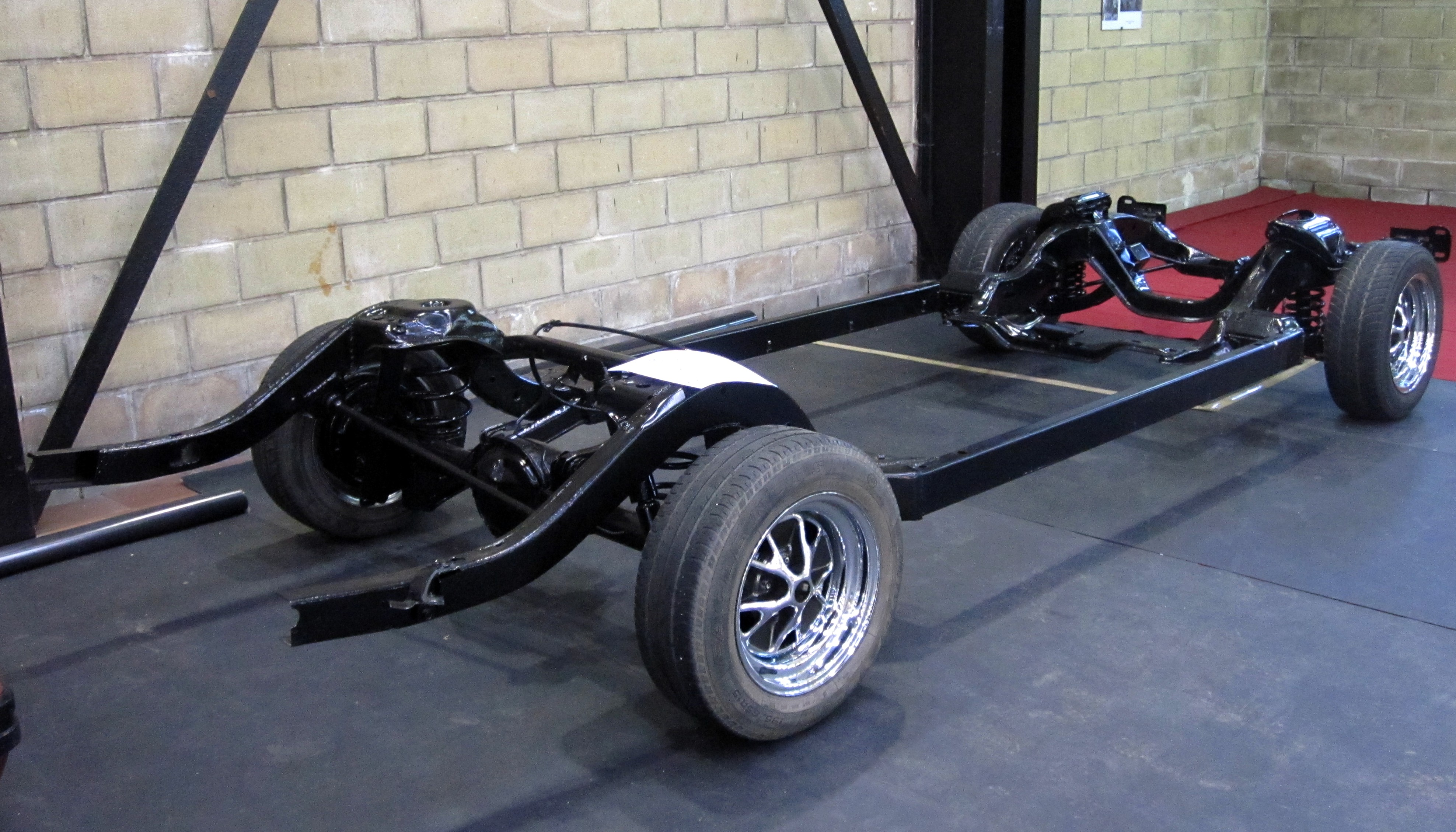 Well I would have loved to see the LTD instead :-/